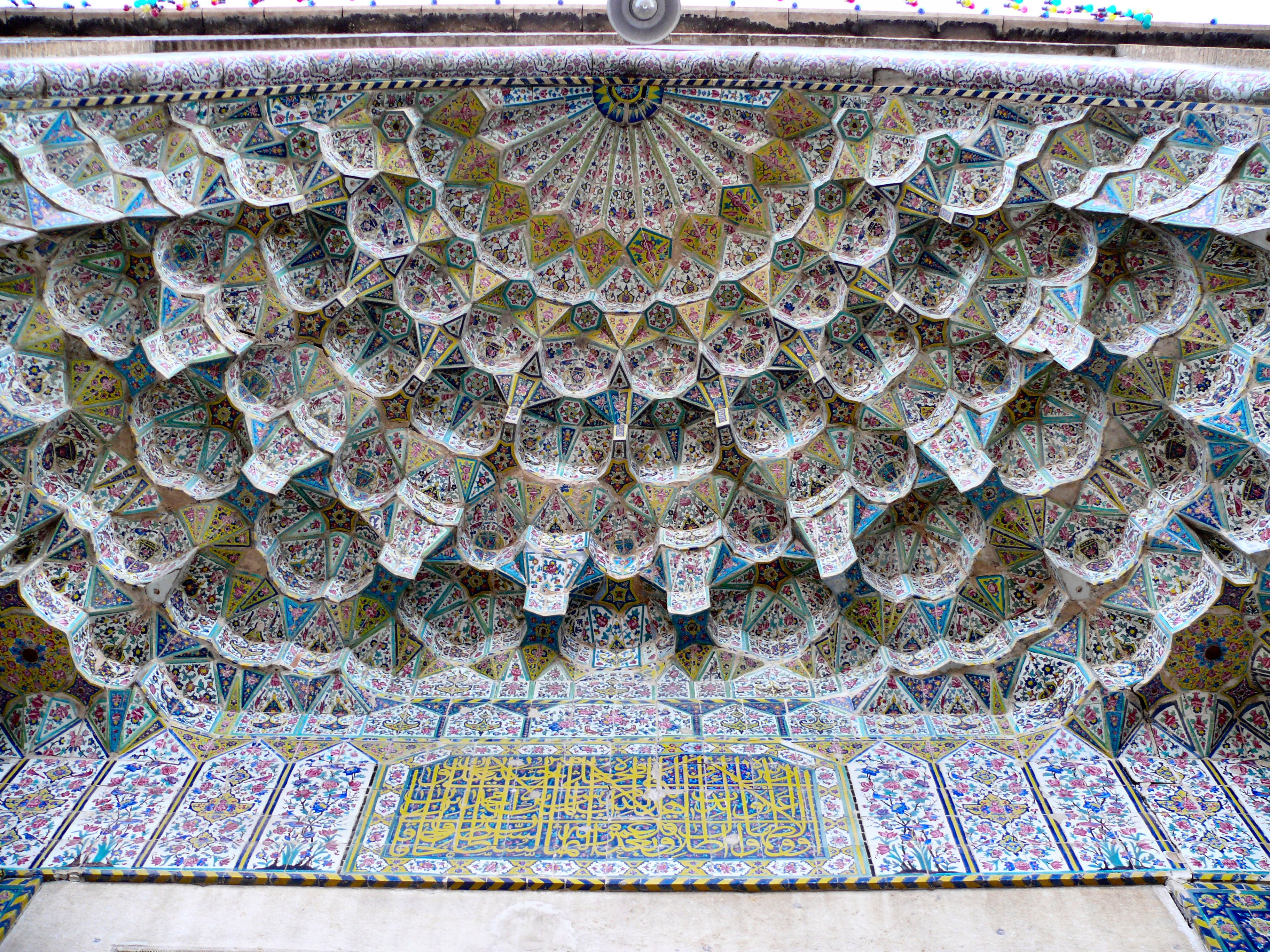 Front door ceiling of the Vakil mosque at Shiraz, Fars province, Iran, April 2008